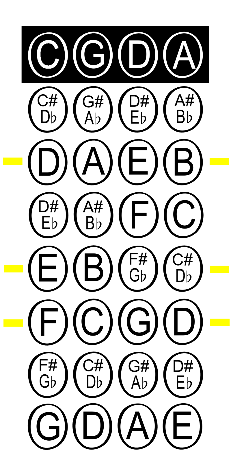 1st position of viola(image derived from this)